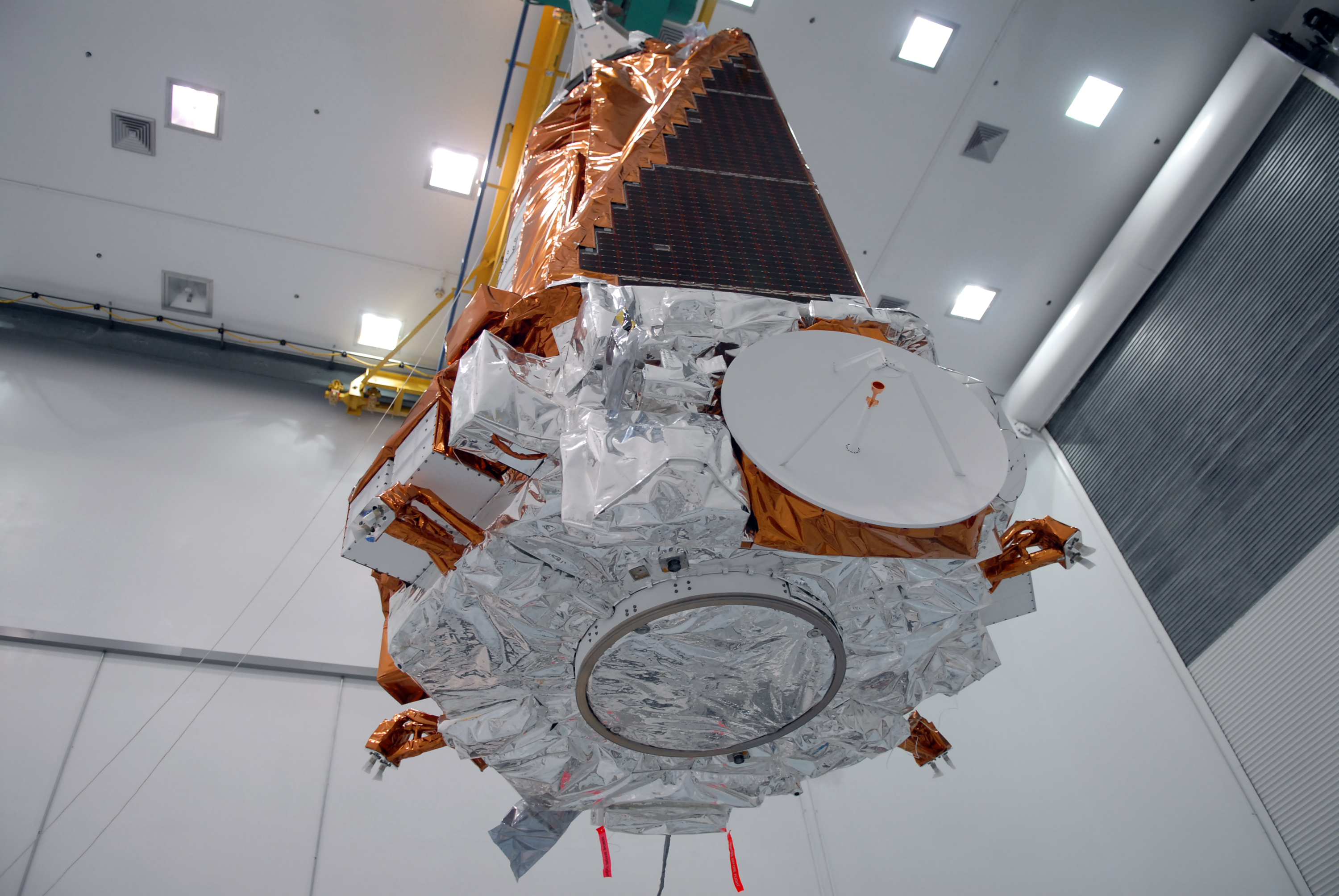 At the Hazardous Processing Facility at Astrotech in Titusville, Fla., the suspended Kepler spacecraft is moved toward a Delta II third stage. Kepler is designed to survey more than 100,000 stars in our galaxy to determine the number of sun-like stars that have Earth-size and larger planets, including those that lie in a star's "habitable zone," a region where liquid water, and perhaps life, could exist. If these Earth-size worlds do exist around stars like our sun, Kepler is expected to be the first to find them and the first to measure how common they are. The liftoff of Kepler aboard a Delta II rocket is currently targeted for 10:48 p.m. EST March 5 from Space Launch Complex 17 on Cape Canaveral Air Force Station.